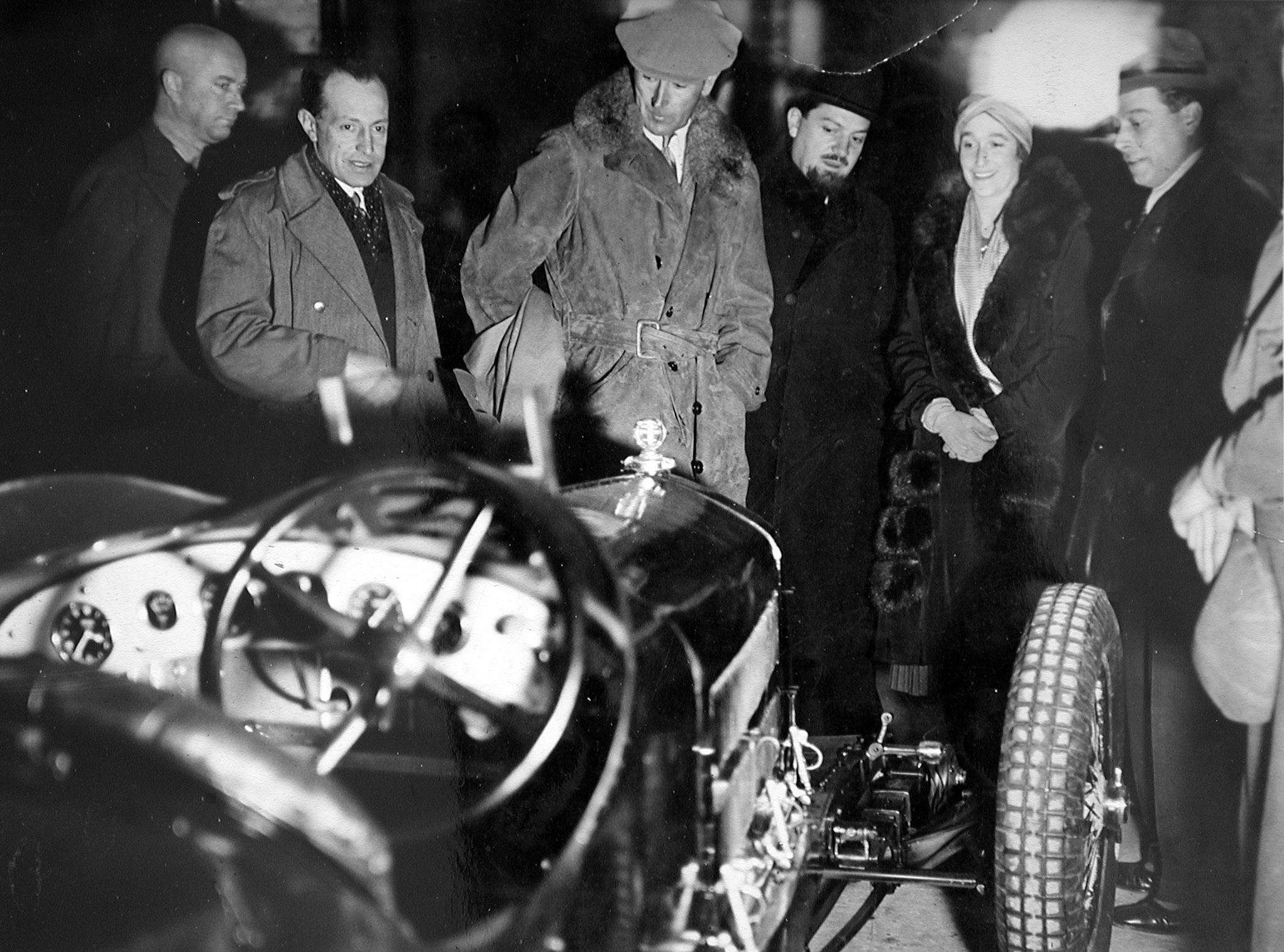 Visit to Alfa Romeo by Hugh Cholmondeley, 6th Marquess of Cholmondeley (1919-1990, 3rd from left), Italo Balbo (4th), Lady Cholmondeley (5th), Prospero Gianferrari (6th). People recognized by G.B. Guidotti.